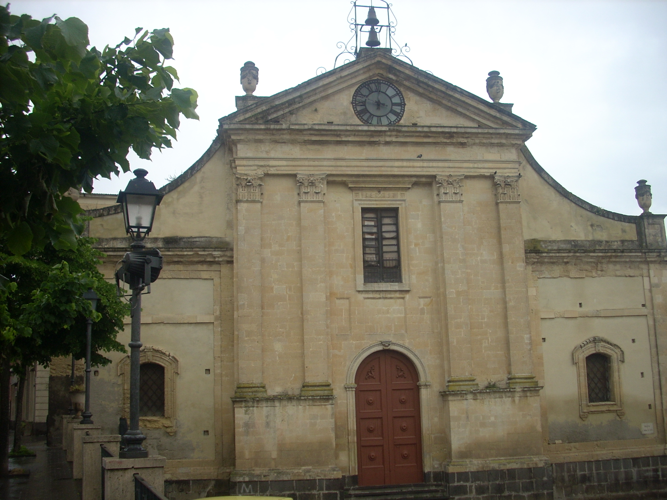 Baroque church Santa Maria di Gesù, in Vizzini, Sicily.